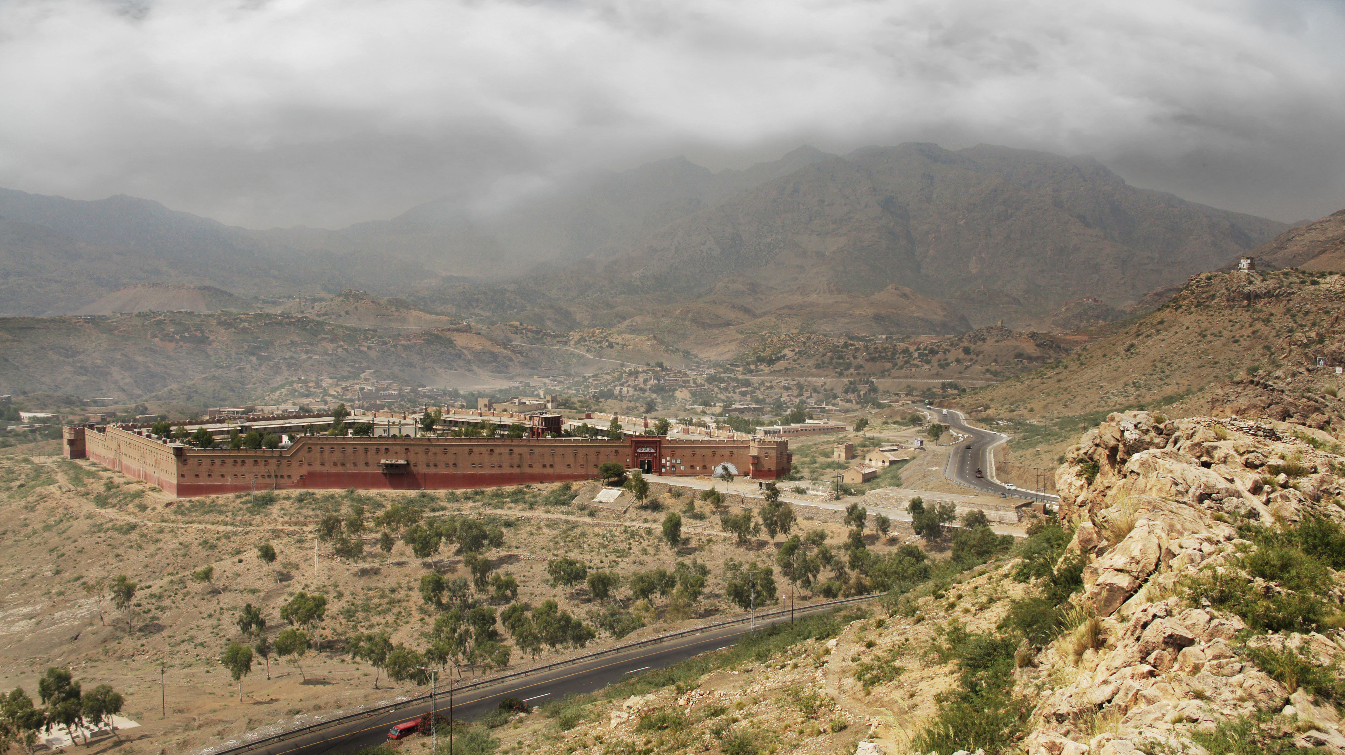 Shagai Fort is an imposing red fort.It was built by the British in the 1920s and is now manned by the Frontier Force.The Fort was an important base in the tribal zone of Pakistan.For many years it is the headquarters of the Khyber Rifles - the traditional guardians of the pass and it is stragically placed at the centre of the Kyber. This is a photo of a monument in Pakistan identified as the FATA-5